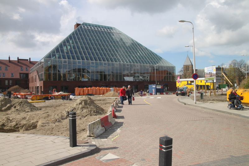 Library the boekenberg in Spijkenisse